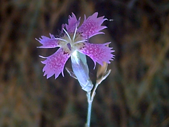 A work release by Javier martin Francisco Javier Martin Lopez, a plant Dianthus lusitanus, in Sierra Madrona, Ciudad Real, Spain 2006, July 15. A free donation to Wikipedia.